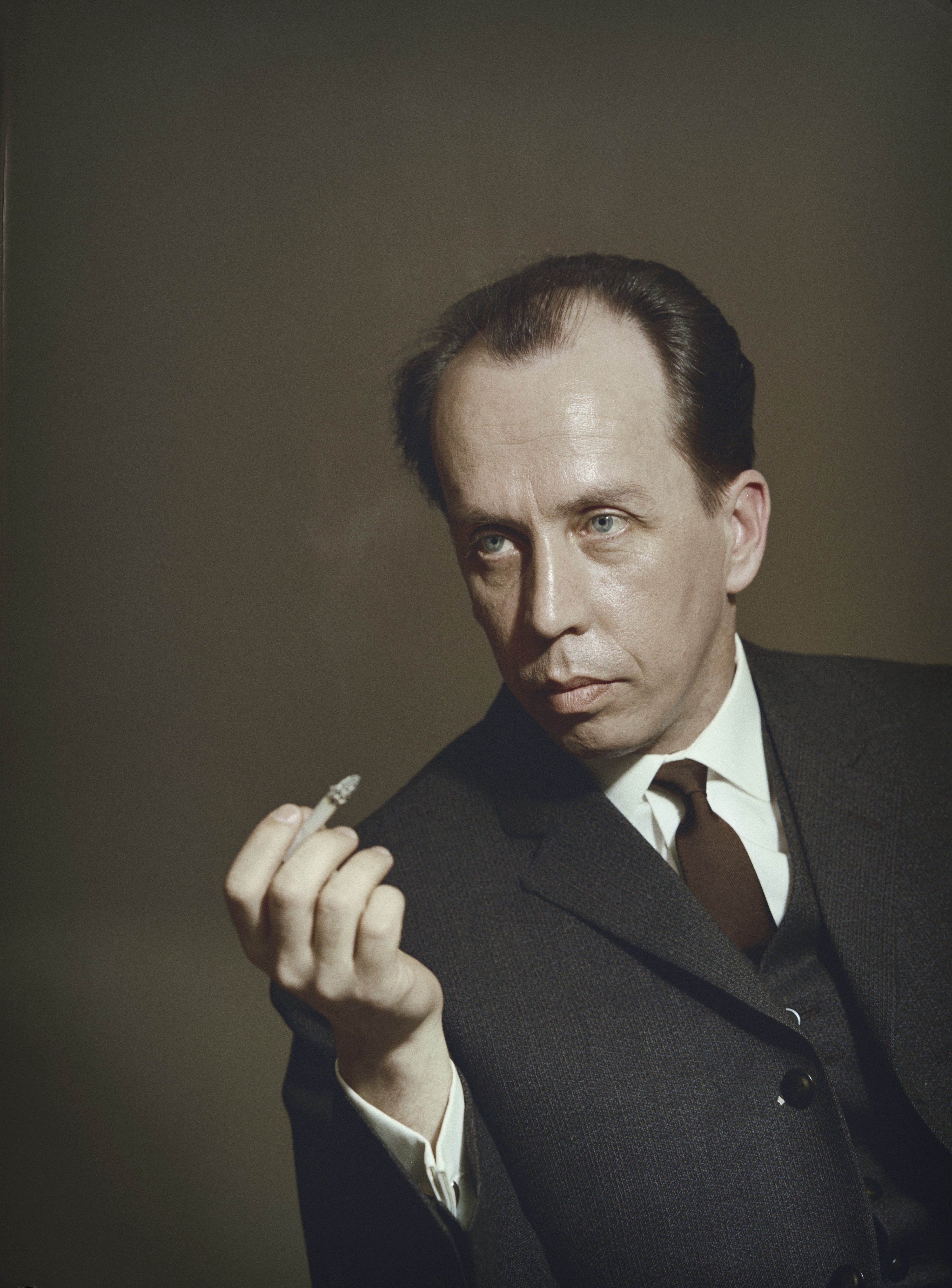 Photograph of the Finnish educationist and professor Väinö Heikkinen (1924–1997).